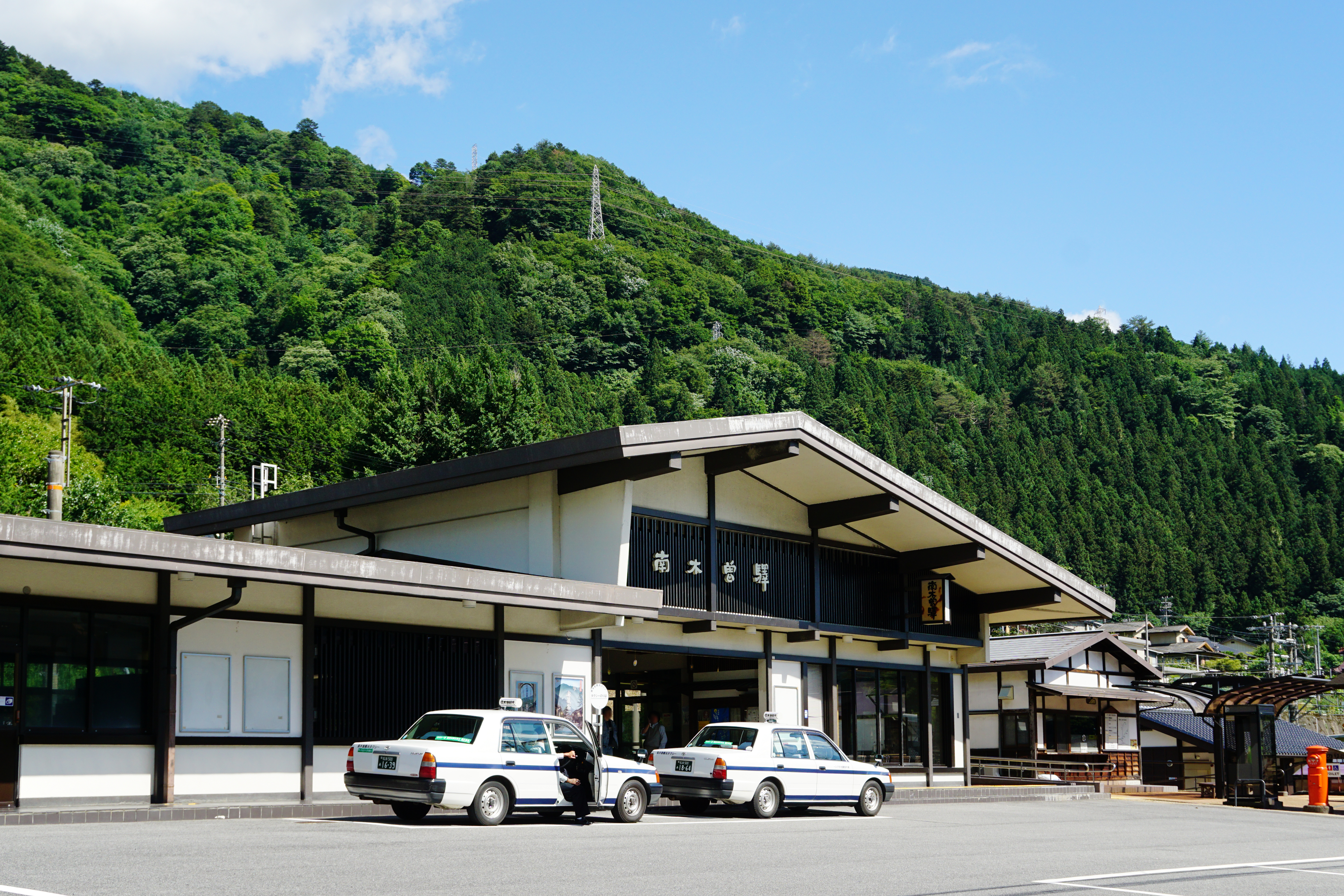 Nagiso Station in Nagiso, Nagano prefecture, Japan